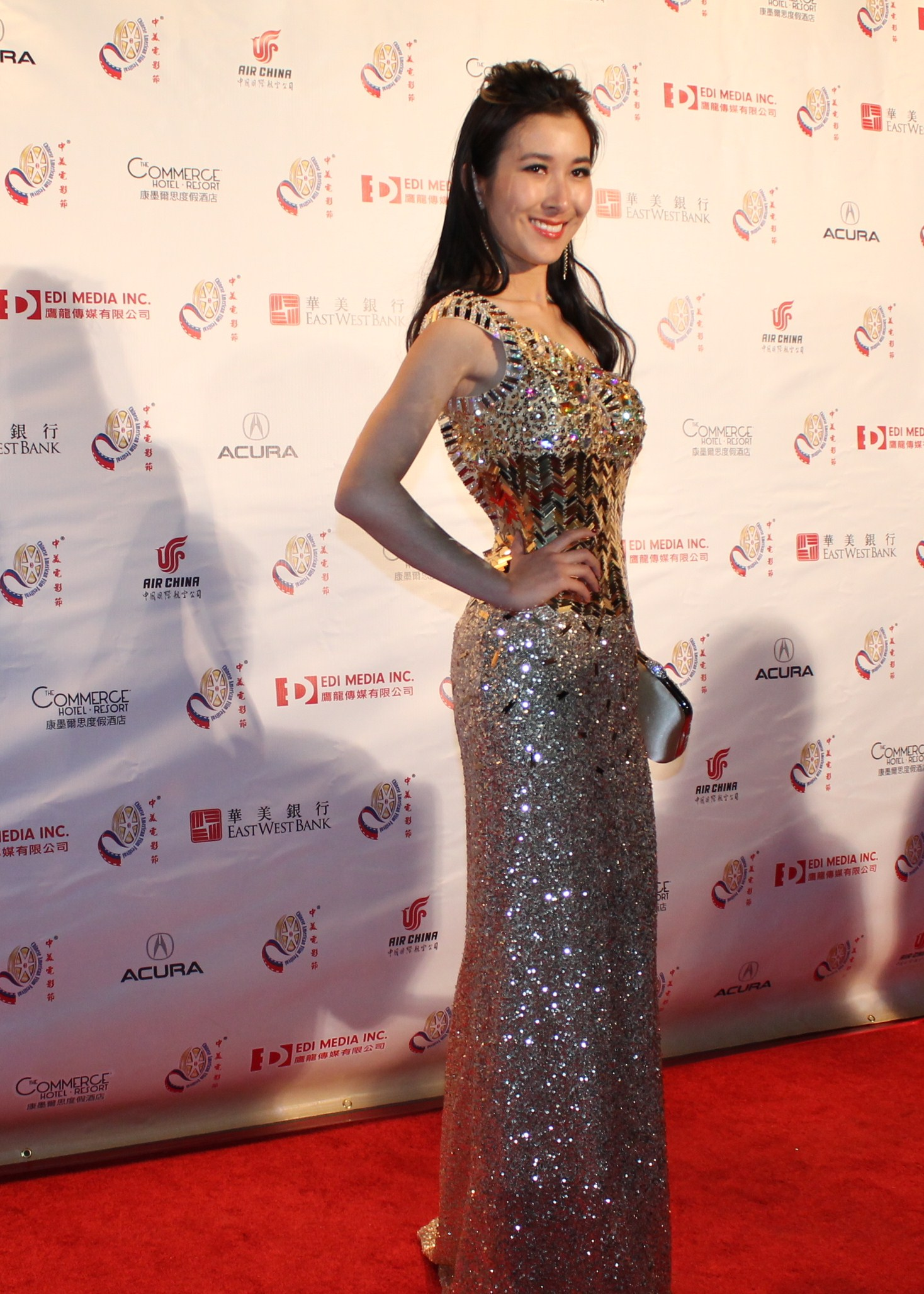 Selena Du Hollywood film festival redcarpet